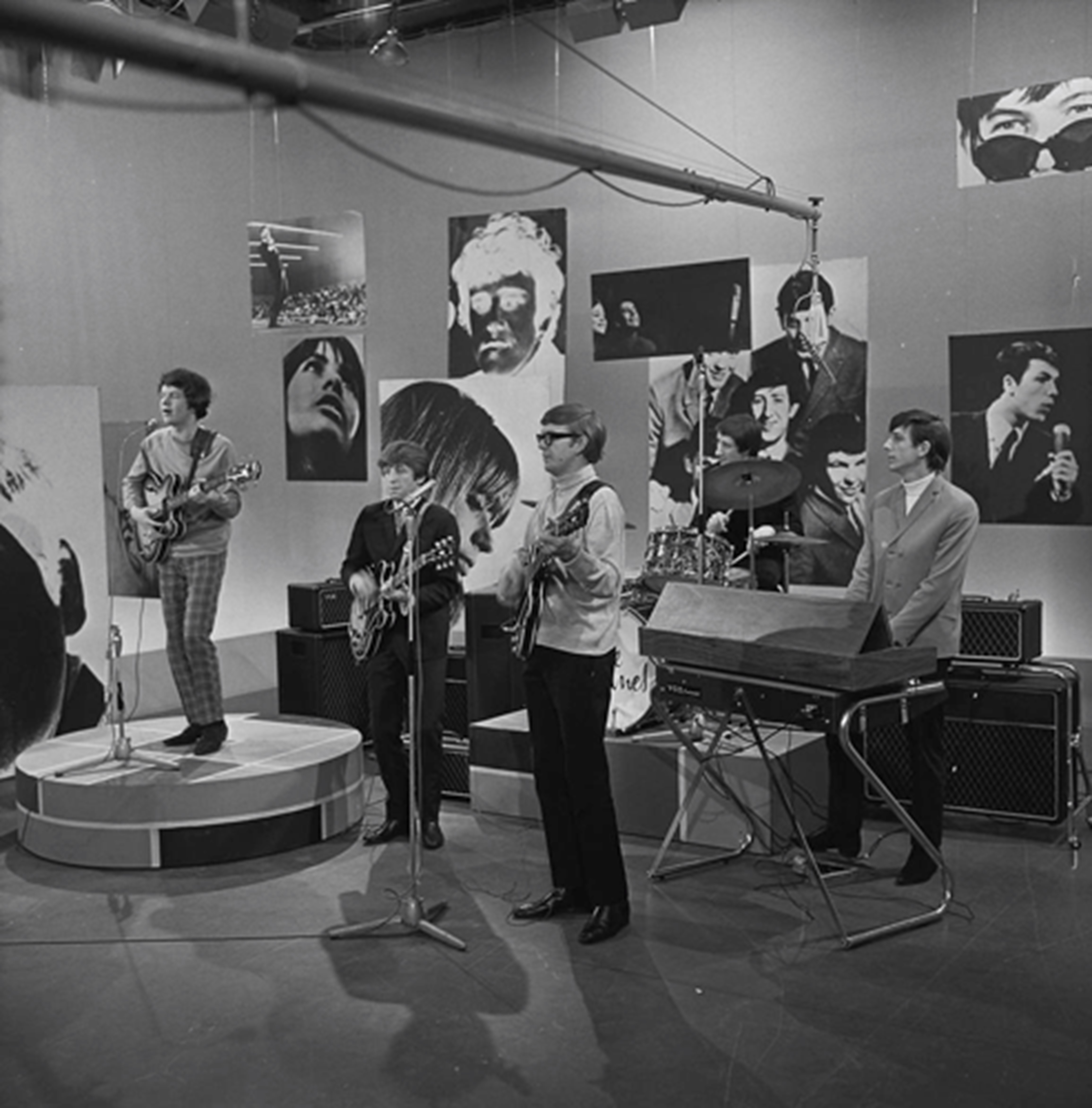 The Fortunes singing "This golden ring" and "Here it comes again" at Dutch TV programme Fanclub, 11 March 1966